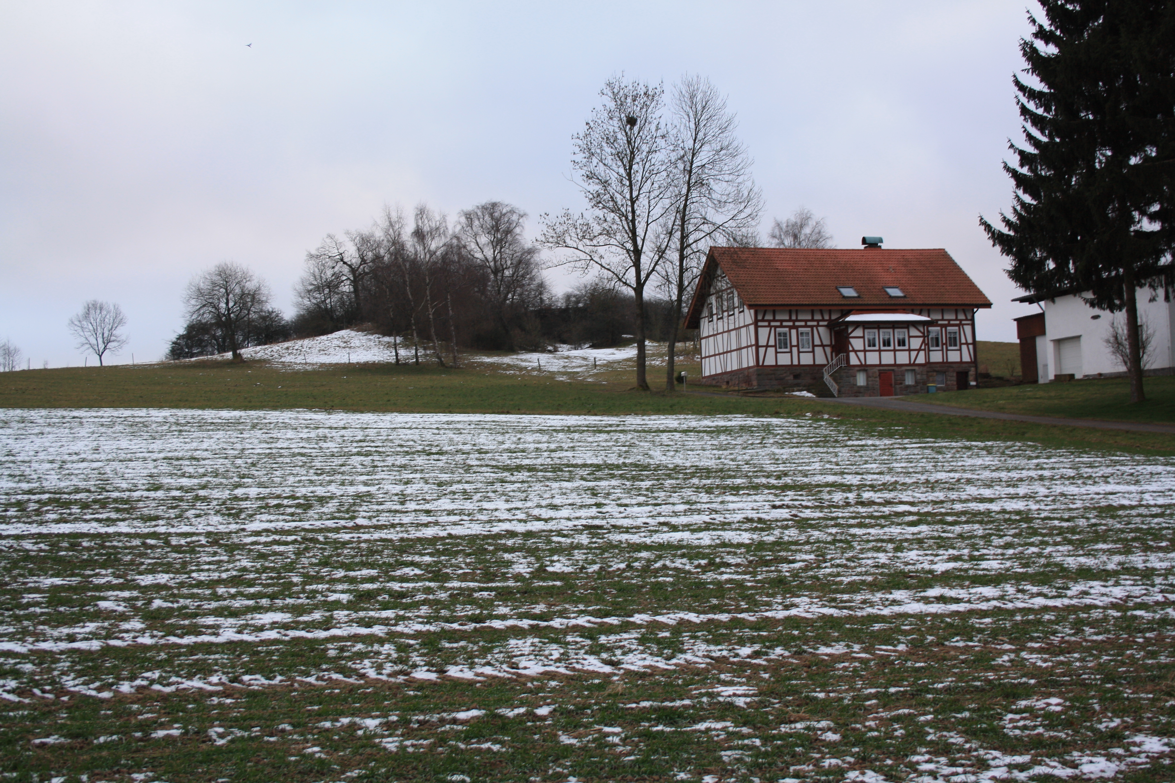 Motzküppel